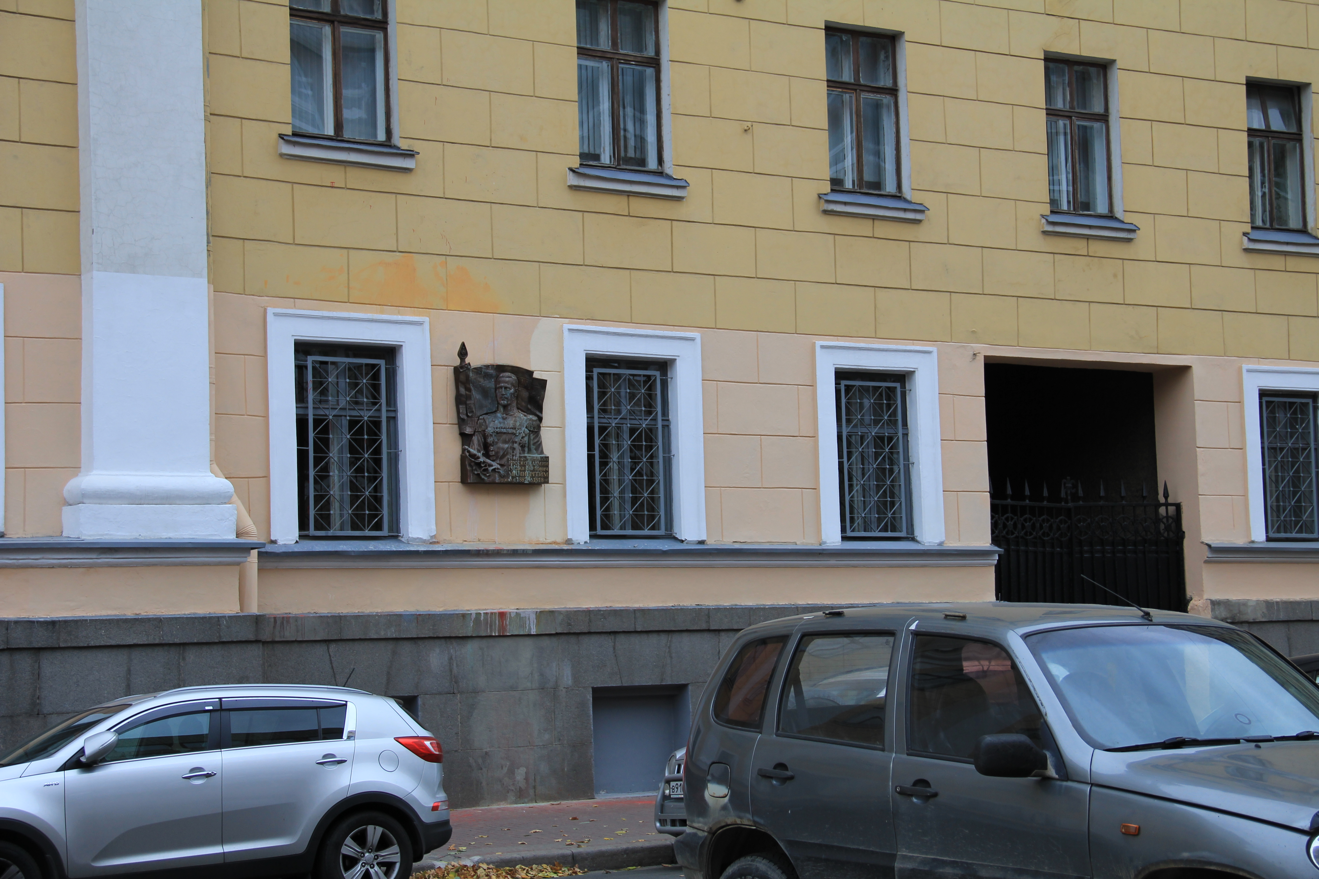 22 Zaharevskaja, St. Petersburg, Russia